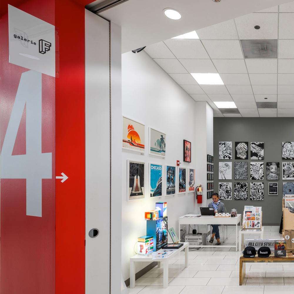 By Geoff Adler, Peyote.